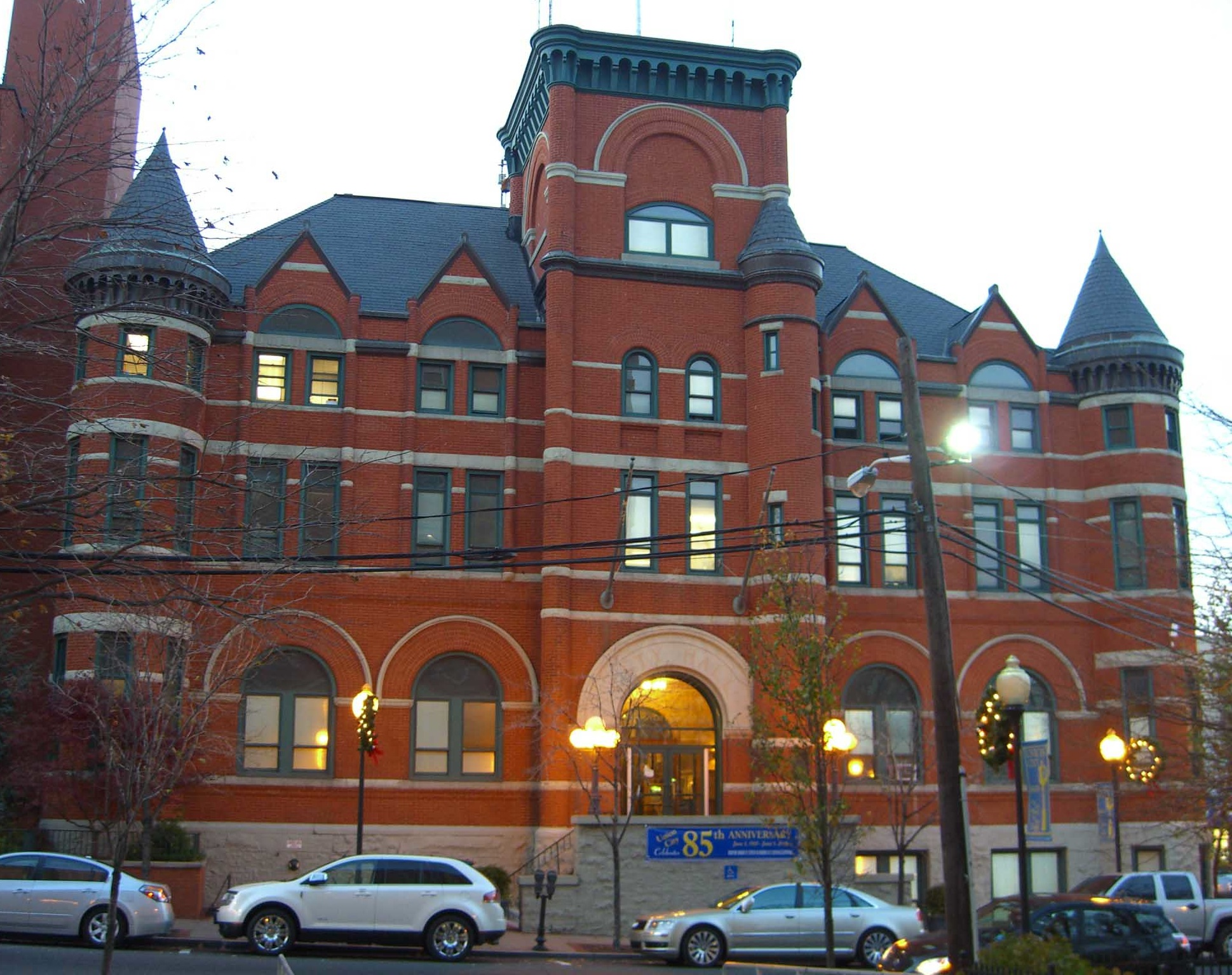 City Hall in Union City, New Jersey, November 22, 2010. The blue banner draped in front of the entrance indicates the 85th anniversary of the city, which was founded on June 1, 1925. Photographed by Luigi Novi. This photo is not in the public domain. It may, however, be used, modified and published for any purpose, free of charge, only if the photographer is properly credited, either by linking the photograph to this page, or with an easily visible credit to the photographer placed near the photo in each instance in which it is used. (See licensing information below.) Publication of this photo without this proper attribution constitutes copyright infringement. If you have any questions, you can contact me on my Wikipedia Talk Page.